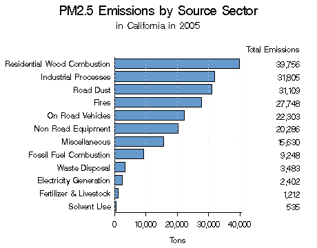 Graph showing sources of particulate pollution in California.